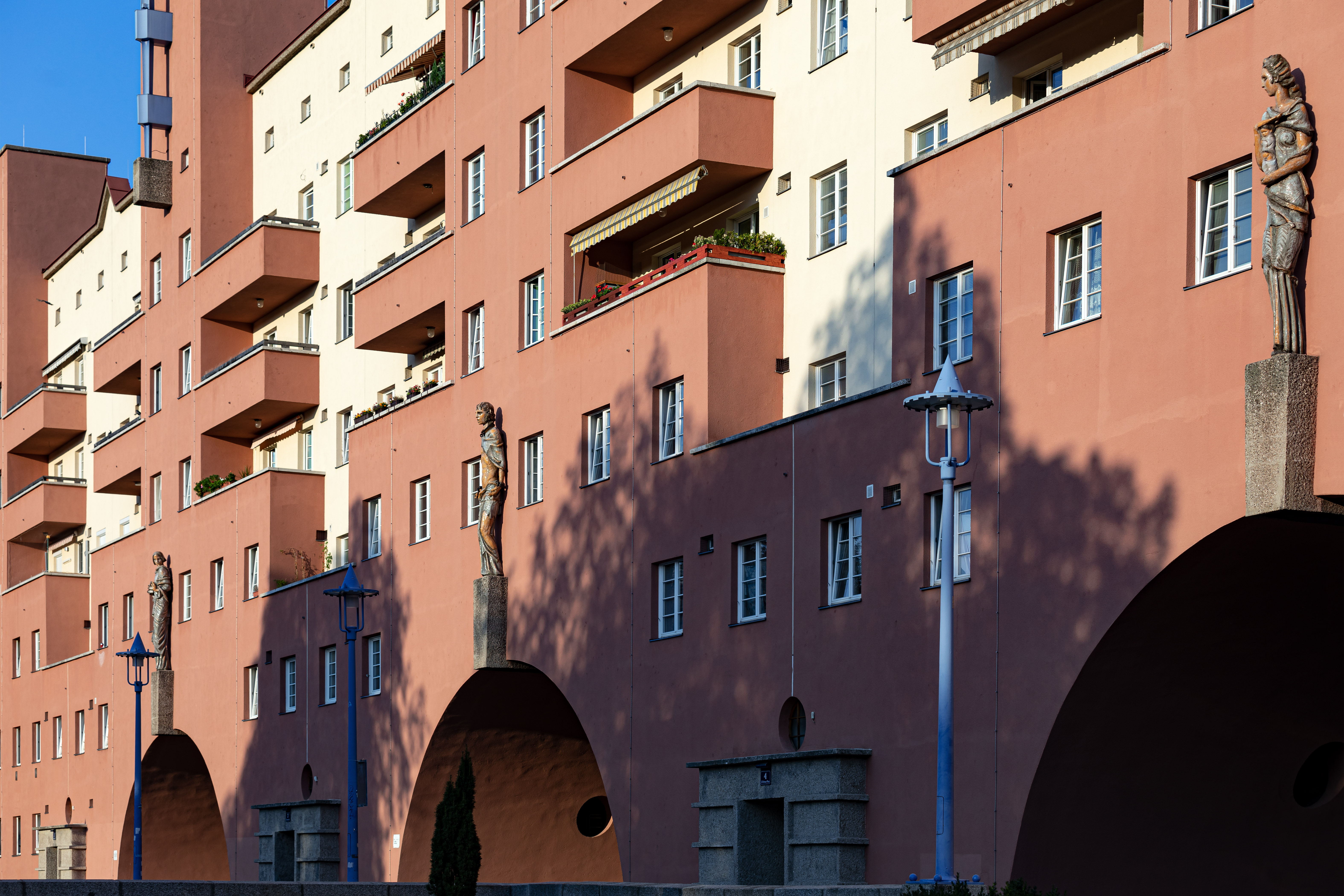 Karl-Marx-Hof in Vienna, Austria. This media shows the Vienna residential building (Gemeindebau) with the ID 220.